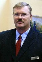 Democrat